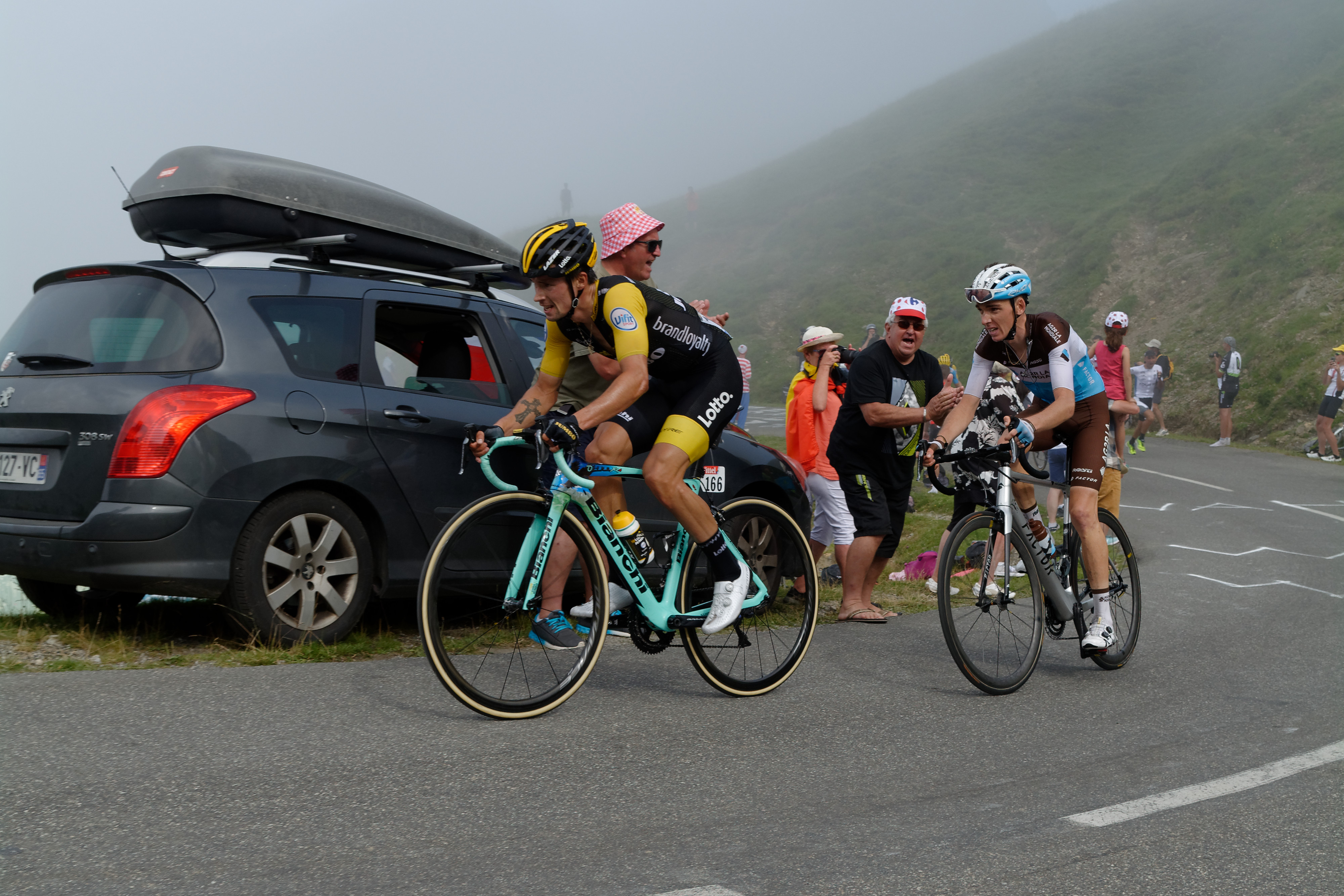 2018 Tour de France